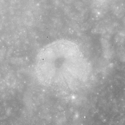 Ameghino crater, the moon. Rotated so that north is at top.